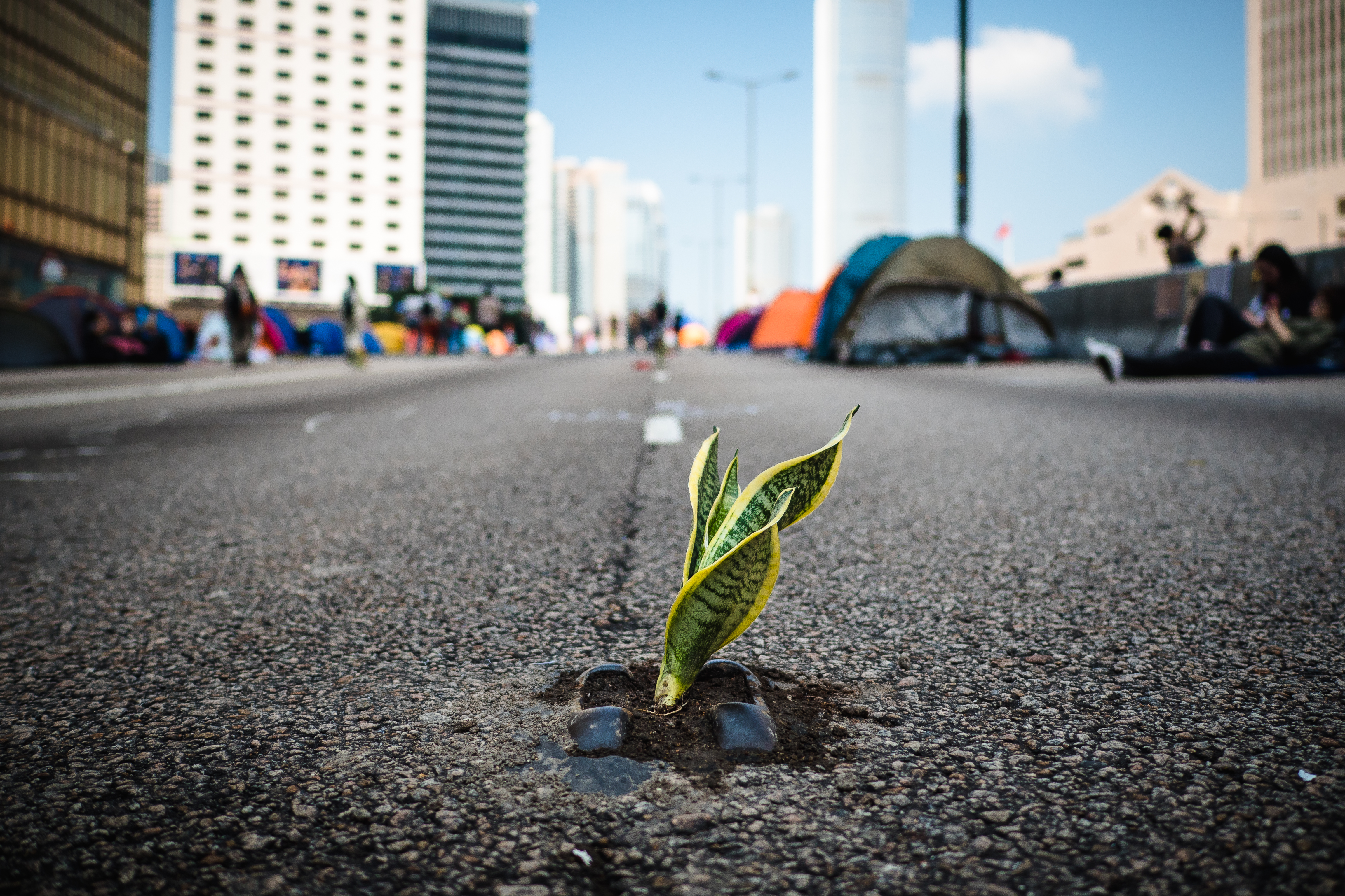 Harcourt Road Plants